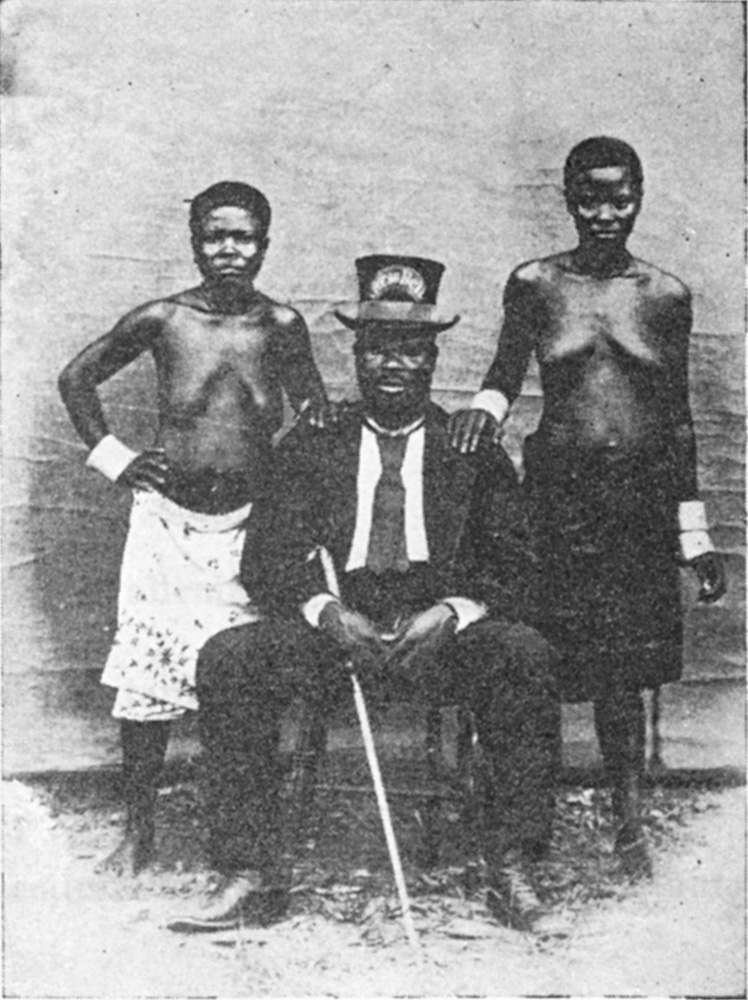 King Bell of the Duala in Cameroon, 1881.